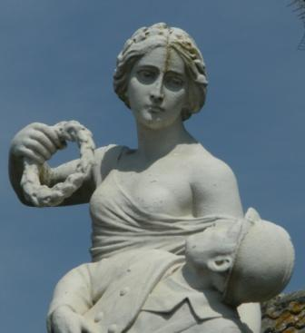 Detail from the monument aux morts at Bouchoir in the Somme.